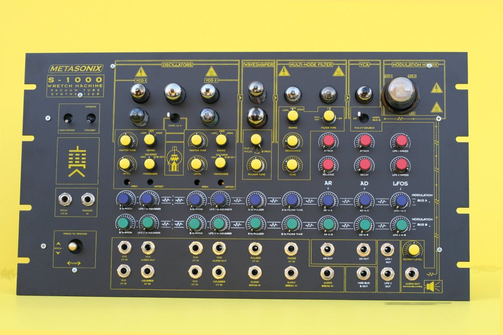 This is a photo of the Metasonix S-1000 Wretch Machine, a music synthesizer made of vacuum tubes. It is the only such synthesizer on the market currently. My product, designed by me, my photo, I own the rights to it.